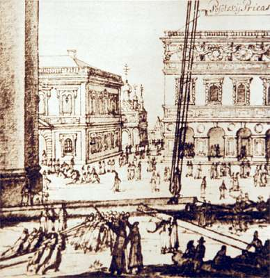 Portions of the Prikazy building and the Posolsky prikaz building in the Moscow Kremlin in 1600s. Fragment of the work by Erik Palmqvist.